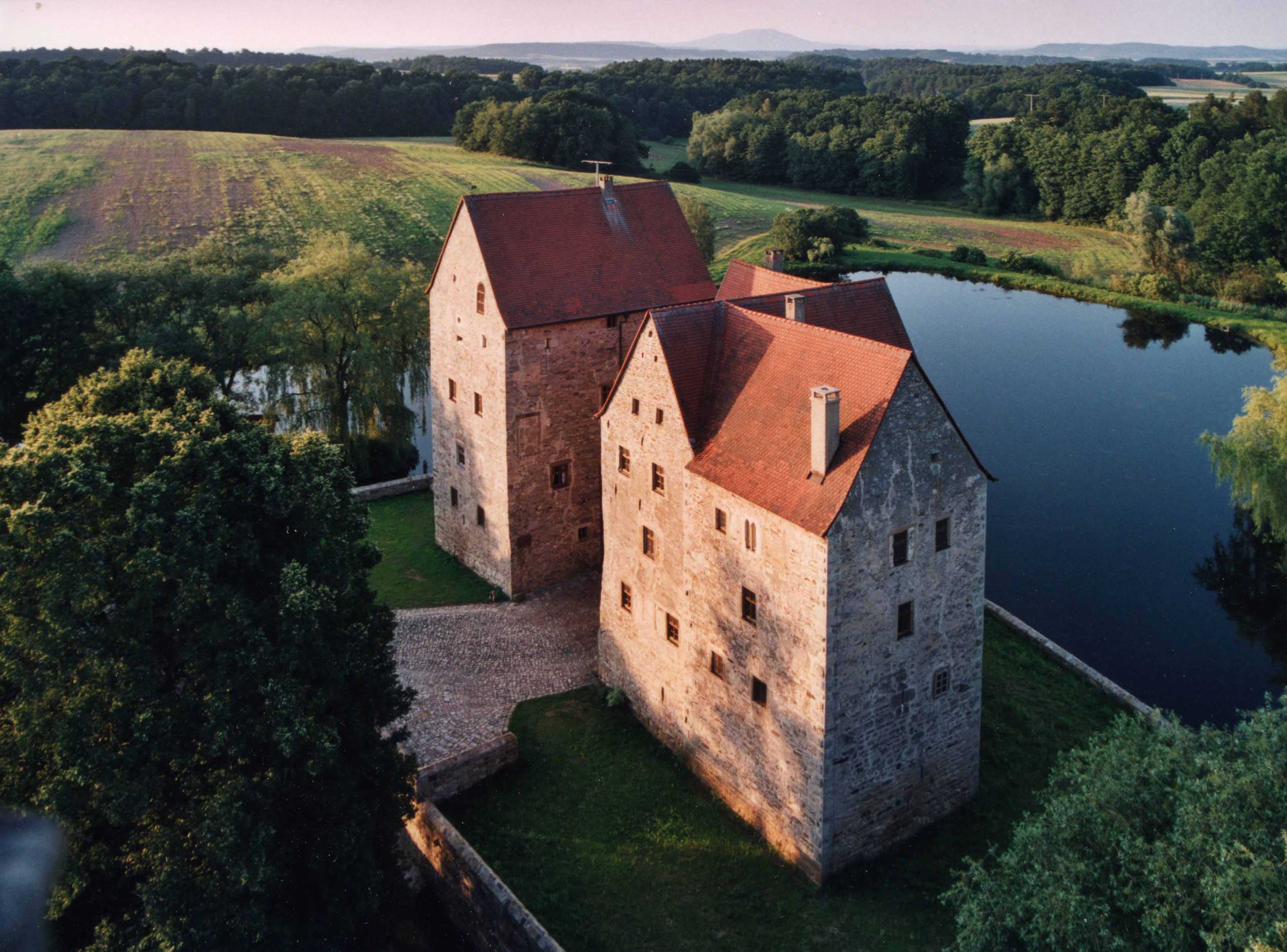 Aerial view of Brennhausen castle